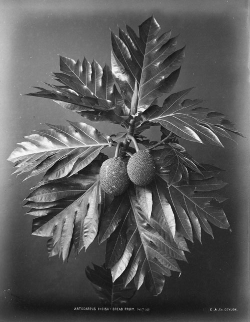 Photograph of Artocarpus altilis from Sri Lanka. Album print, c. 27.5 x 21.5 cm